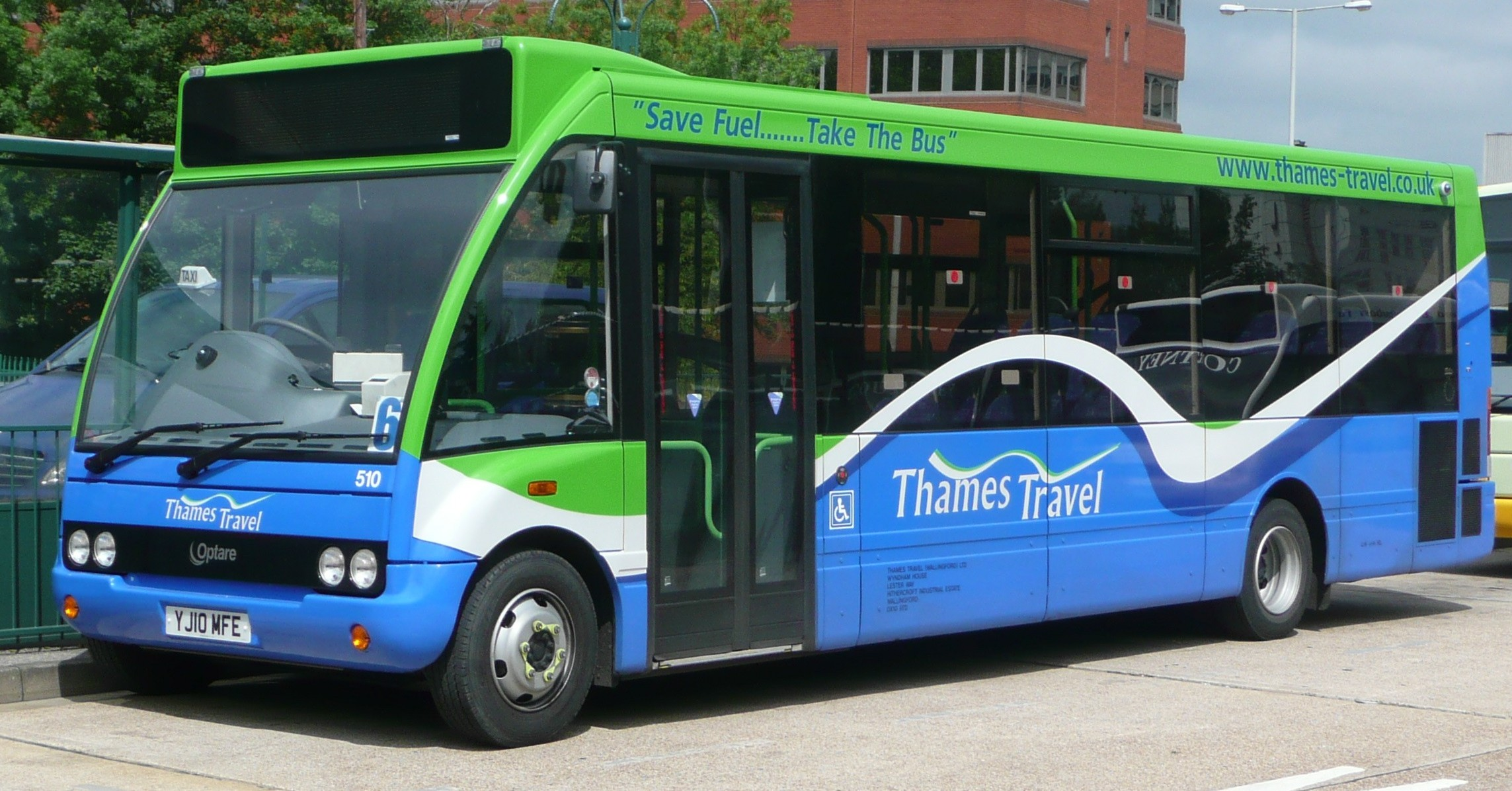 Thames Travel bus 510 (reg. YJ10 MFE), a 2010 Optare Solo M880 midibus, in Bracknell bus station, Bracknell, Berkshire, laying over between duties. Thames Travel was awarded several Bracknell town services routes from First Berkshire & The Thames Valley after First lost the contract. Thames Travel started the services from their new base in Bracknell, on 29 May 2010, with a small fleet of new 10-registered buses.